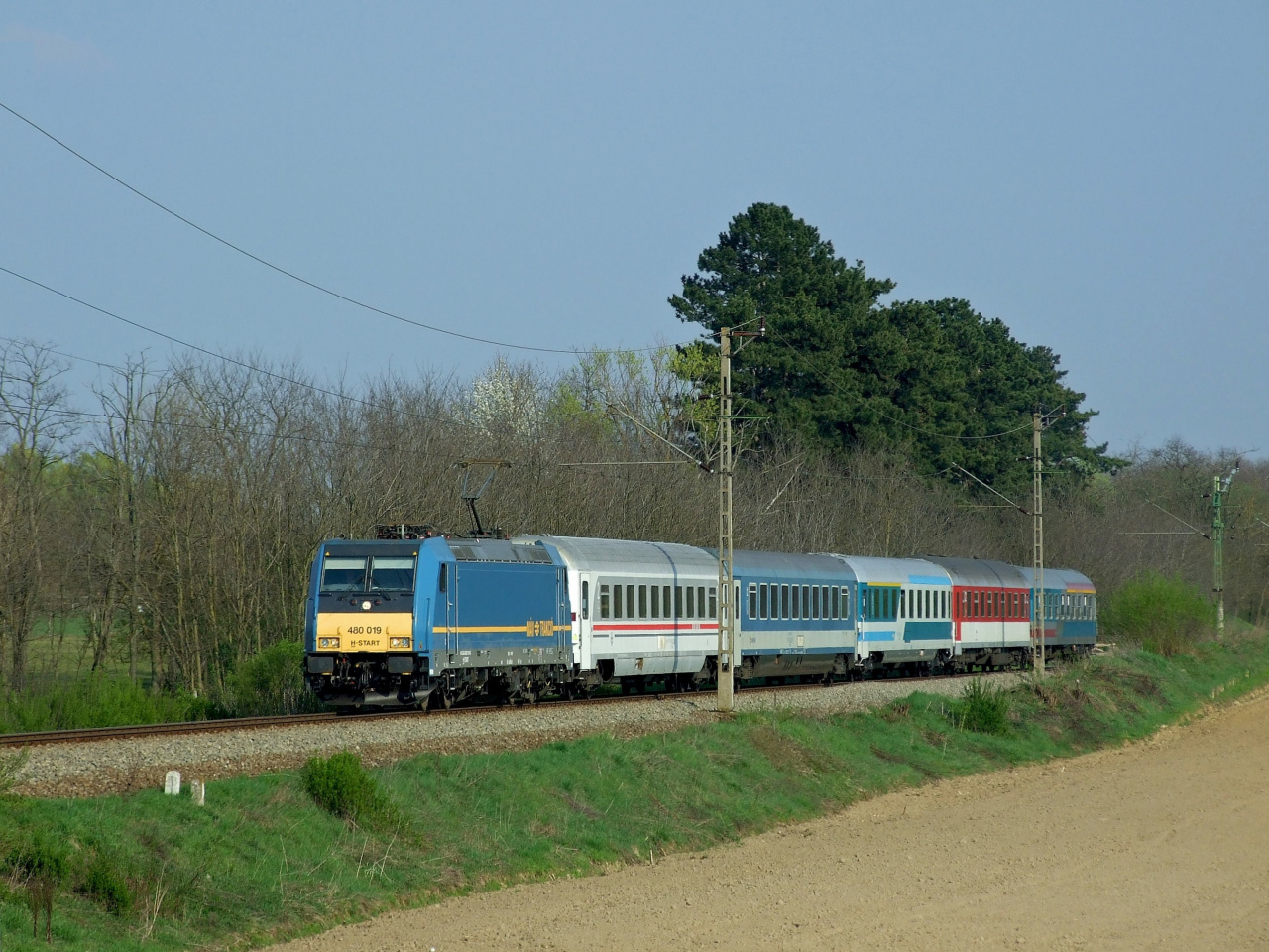 Rippl-Rónai International train from Budapest to Zagreb near Kaposfő, Hungary